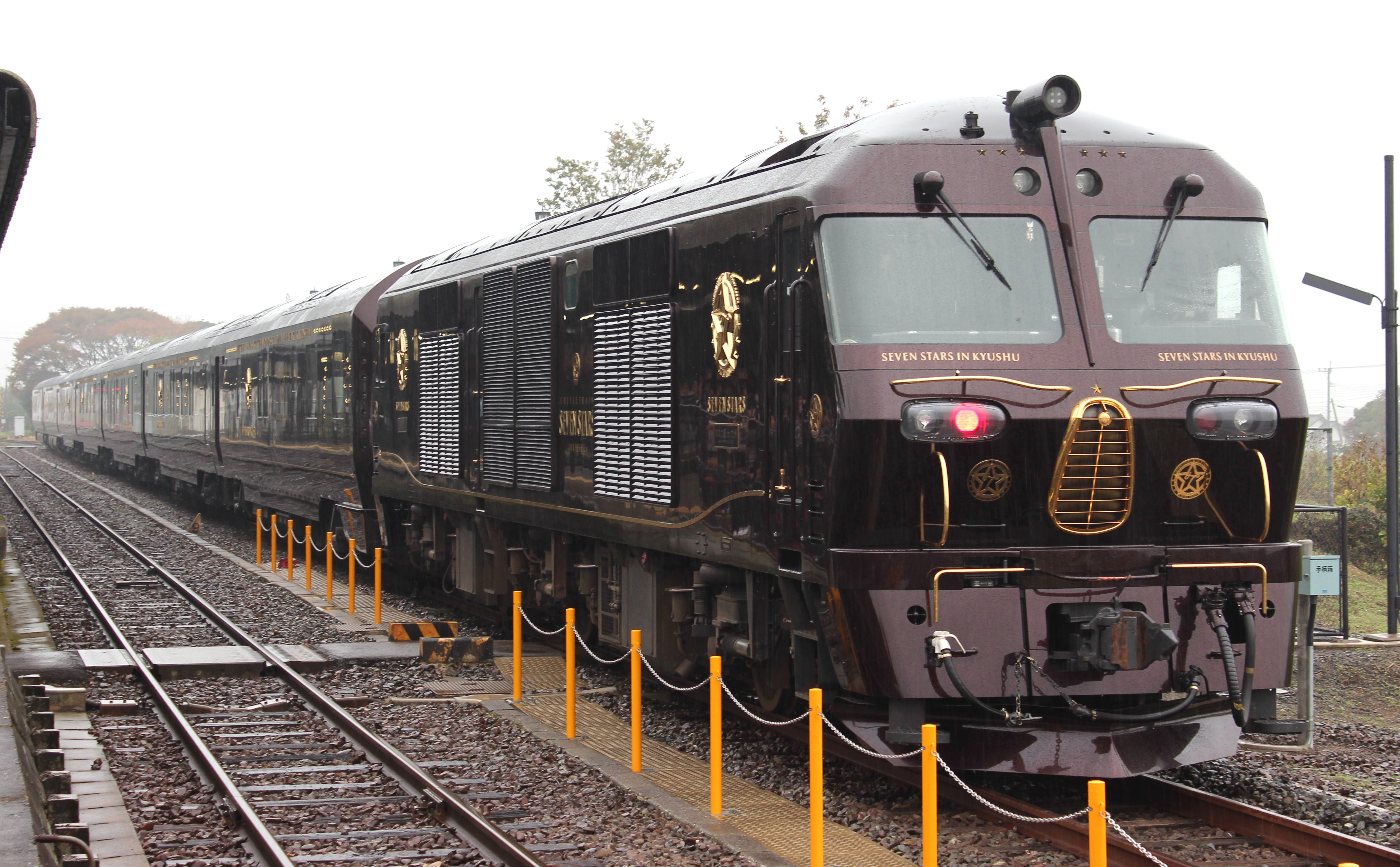 JR Kyushu Class DF200 diesel locomotive DF200-7000 with the Seven Stars in Kyushu luxury cruise train at Aso Station